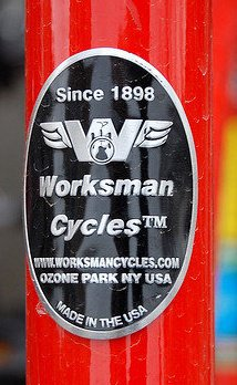 The Famous Worksman "Flying W".